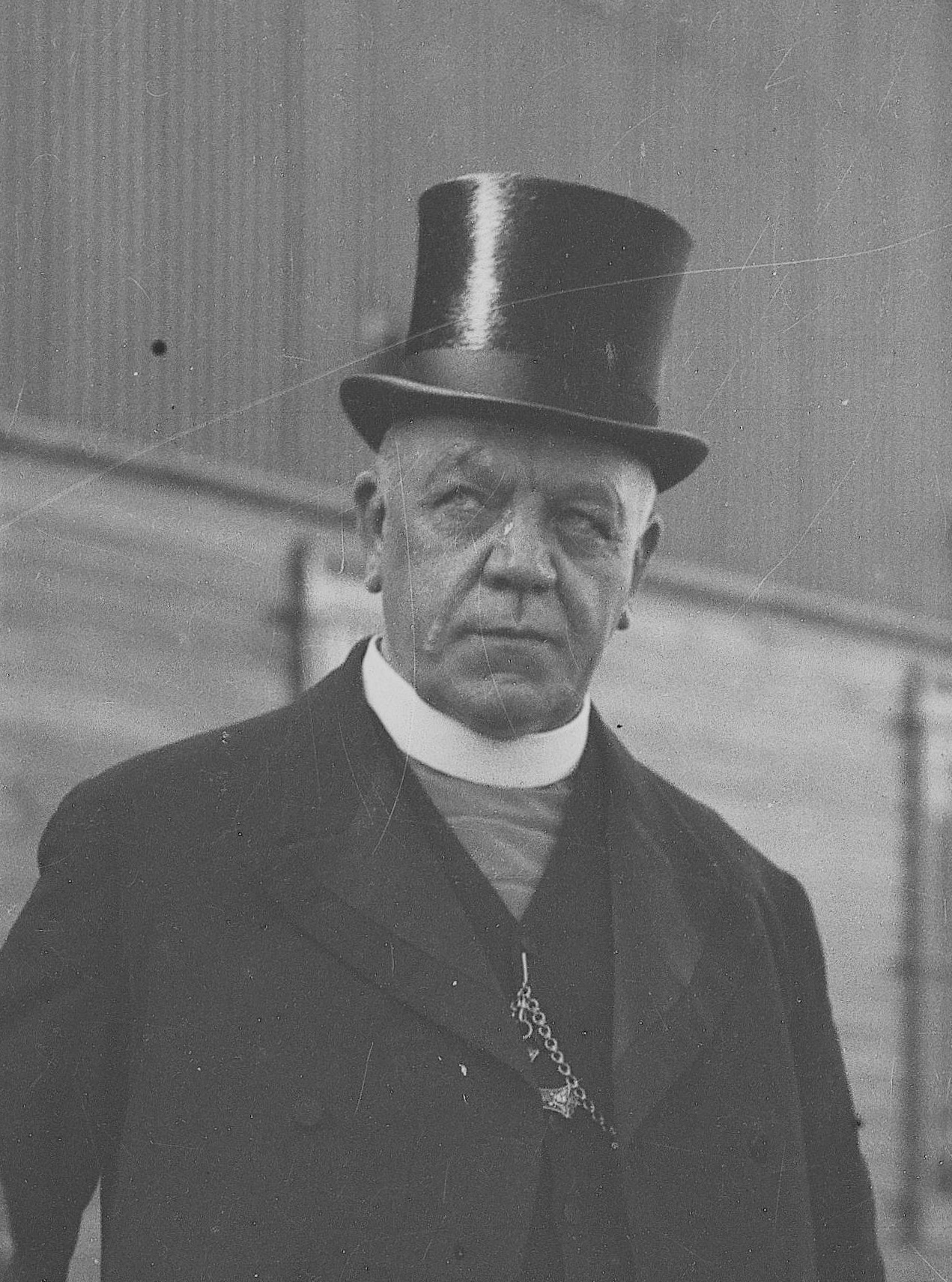 Archbishop Charles Owen Leaver Riley and Patrick Joseph Clune at Fremantle Wharf. Cropped to show Clune